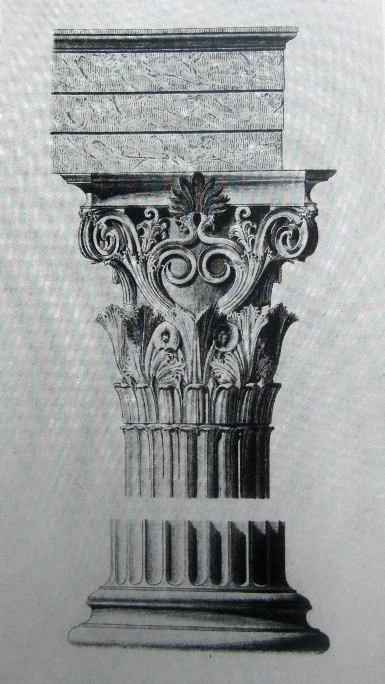 Drawing by Theophil Hansen